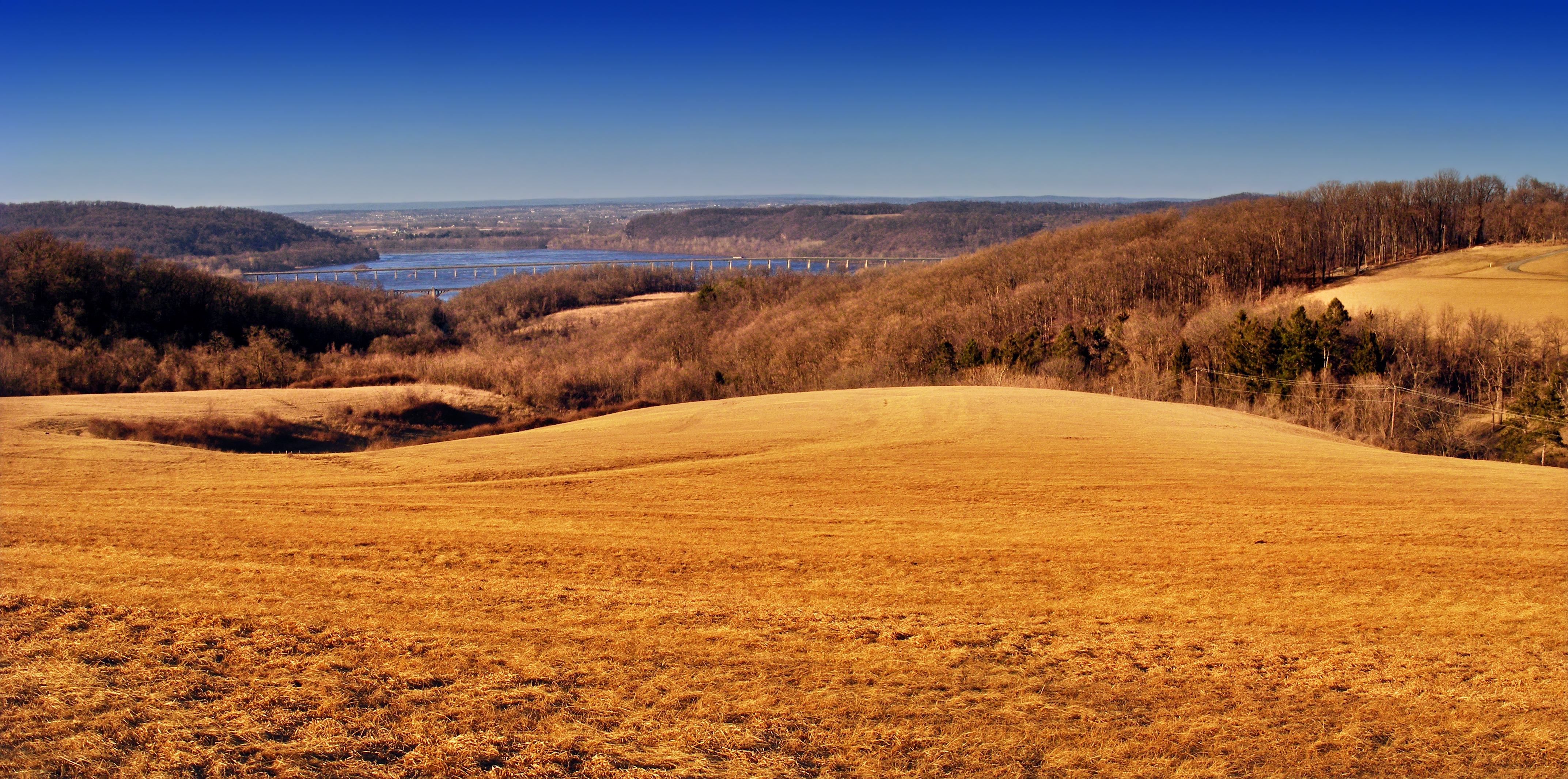 From author: "North-to-northwest view of the Susquehanna River Valley, Lower Windsor Township, York County. Spanning the river is the US Route 30 Bridge. The Columbia-Wrightsville Bridge is partially concealed."